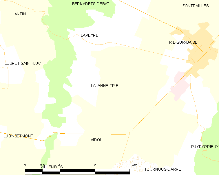 Map of French municipality